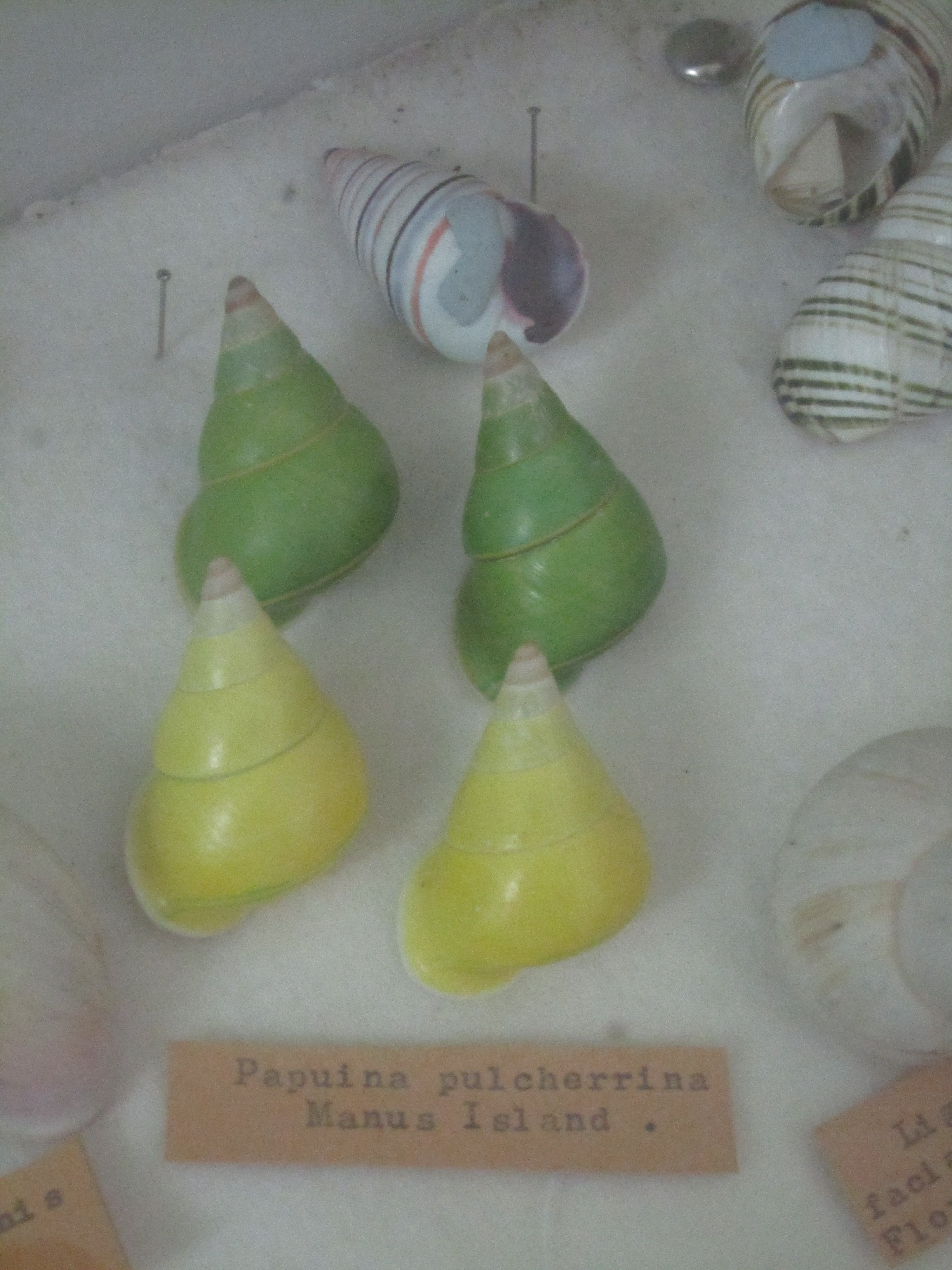 Shell specimens of papustyla pulcherrima, labelled here as papuina pulcherrina. These examples are held in the shell display at the Miles Historical Village.